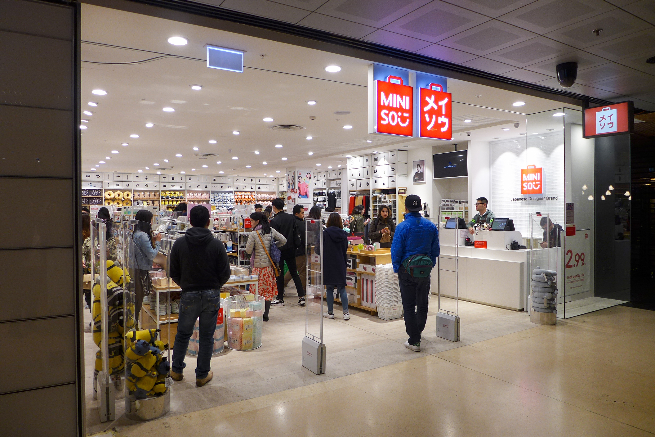 Miniso branch in The Galeries, Sydney